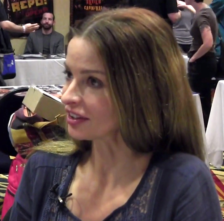 American actress Lisa Marie, star of Mars Attacks , Sleepy Hollow and many more films, interviewed by Count Gore De Vol.